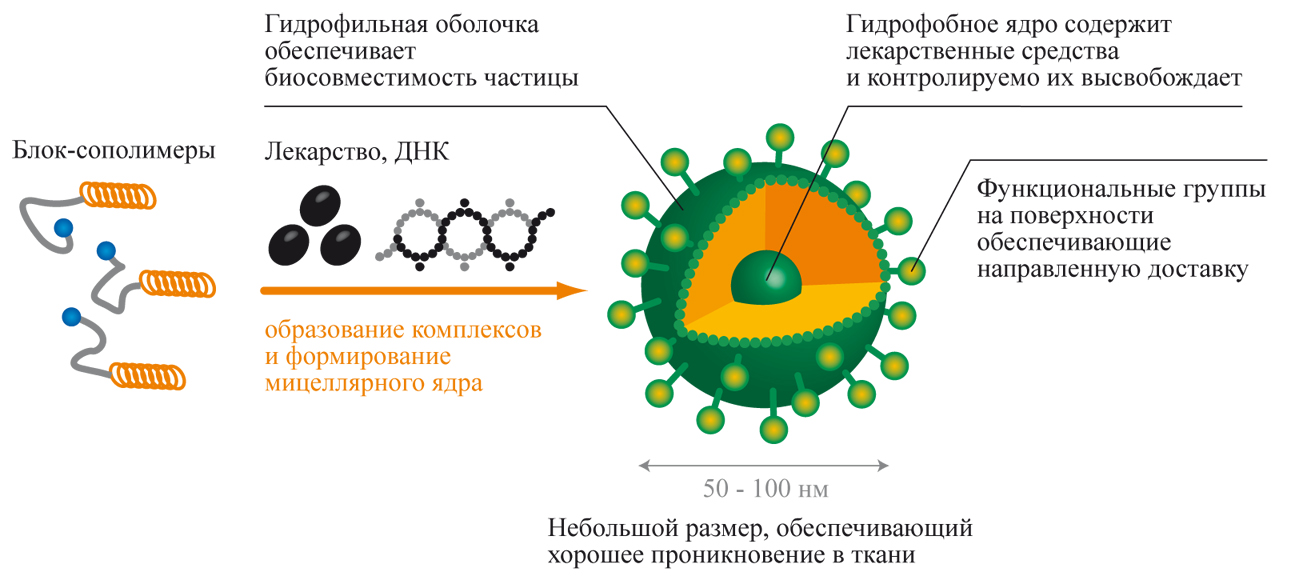 An example of a nanoscale drug delivery systems based on block copolymers - molecules that form the hydrophobic core with the included drug and a hydrophilic membrane that provides biocompatible carrier in general. Surface modification of various vectors allows targeting of content to Targeted tissues and cells